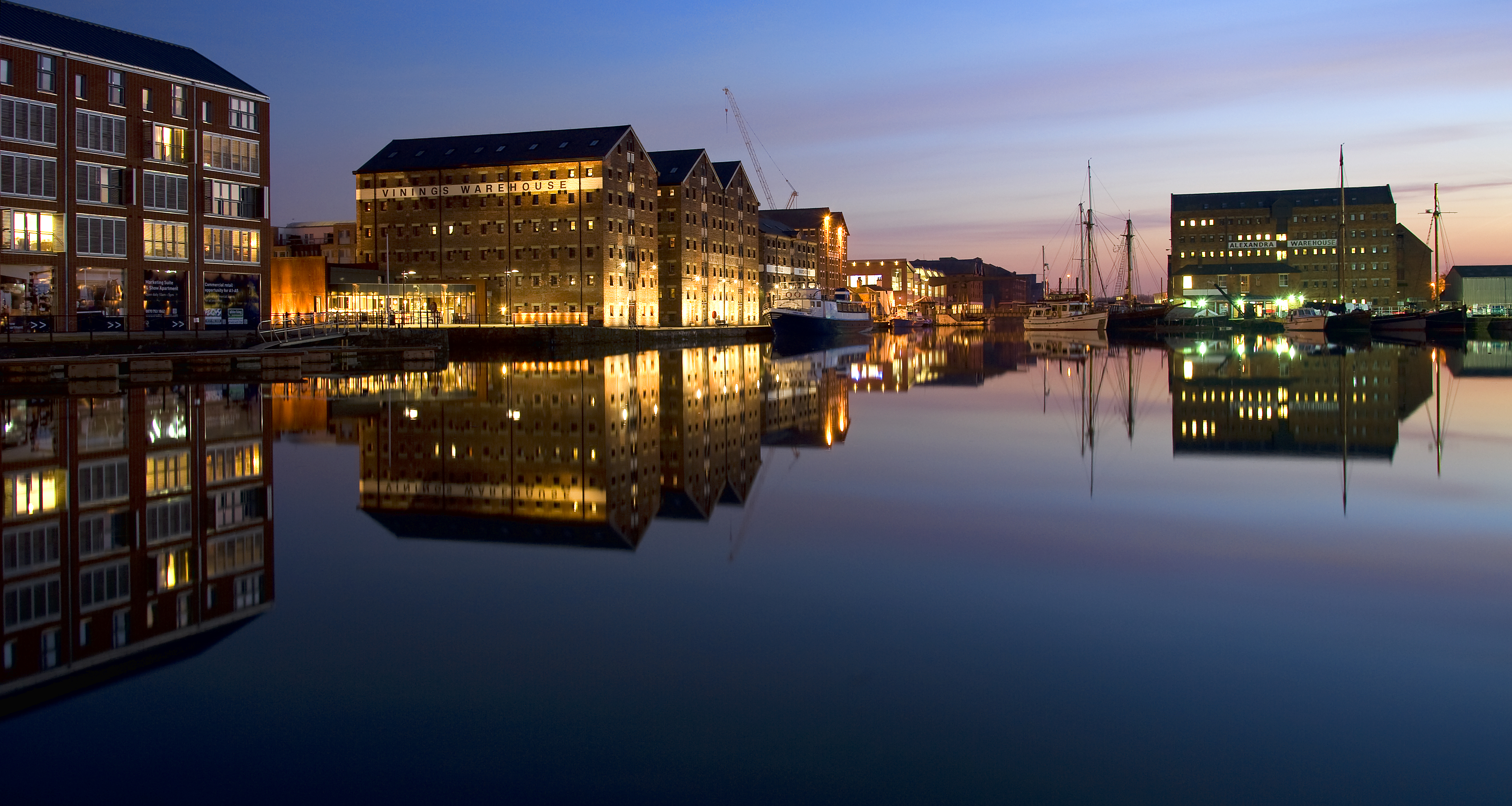 The docks survived the industrial revolution and now what one could term a residential revolution. The immense warehouses have been re-purposed into an up-scale apartment and tourist shopping area.